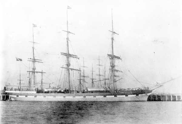 Creator unknown. Black and white photograph of Loch Shiel. Item held by State Library of Victoria as part of Malcolm Brodie shipping collection. Image number: H99.220/3118. Format: photograph: gelatin silver; 10.6 x 15.3 cm. Photograph taken prior to January 1894.